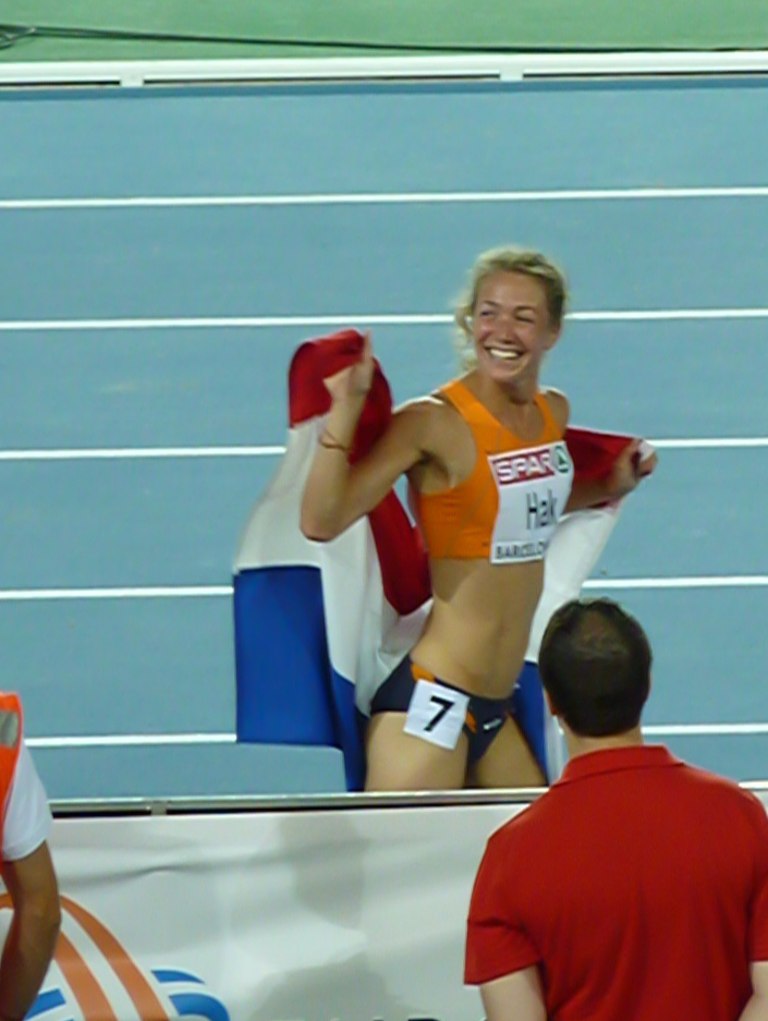 Yvonne Hak - 2010 European Championships in Athletics - winning silver on 800 m.